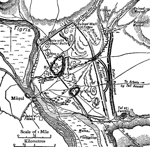 An illustration from the Encyclopaedia Biblica, a 1903 publication which is now in the public domain. Map 2 for article "Nineveh". Site plan of Nineveh It would be helpful if someone could add colour to the map (rivers, lakes, roads, walls, railways, and other items mentioned in the key), to clarify it/ improve the aesthetic.